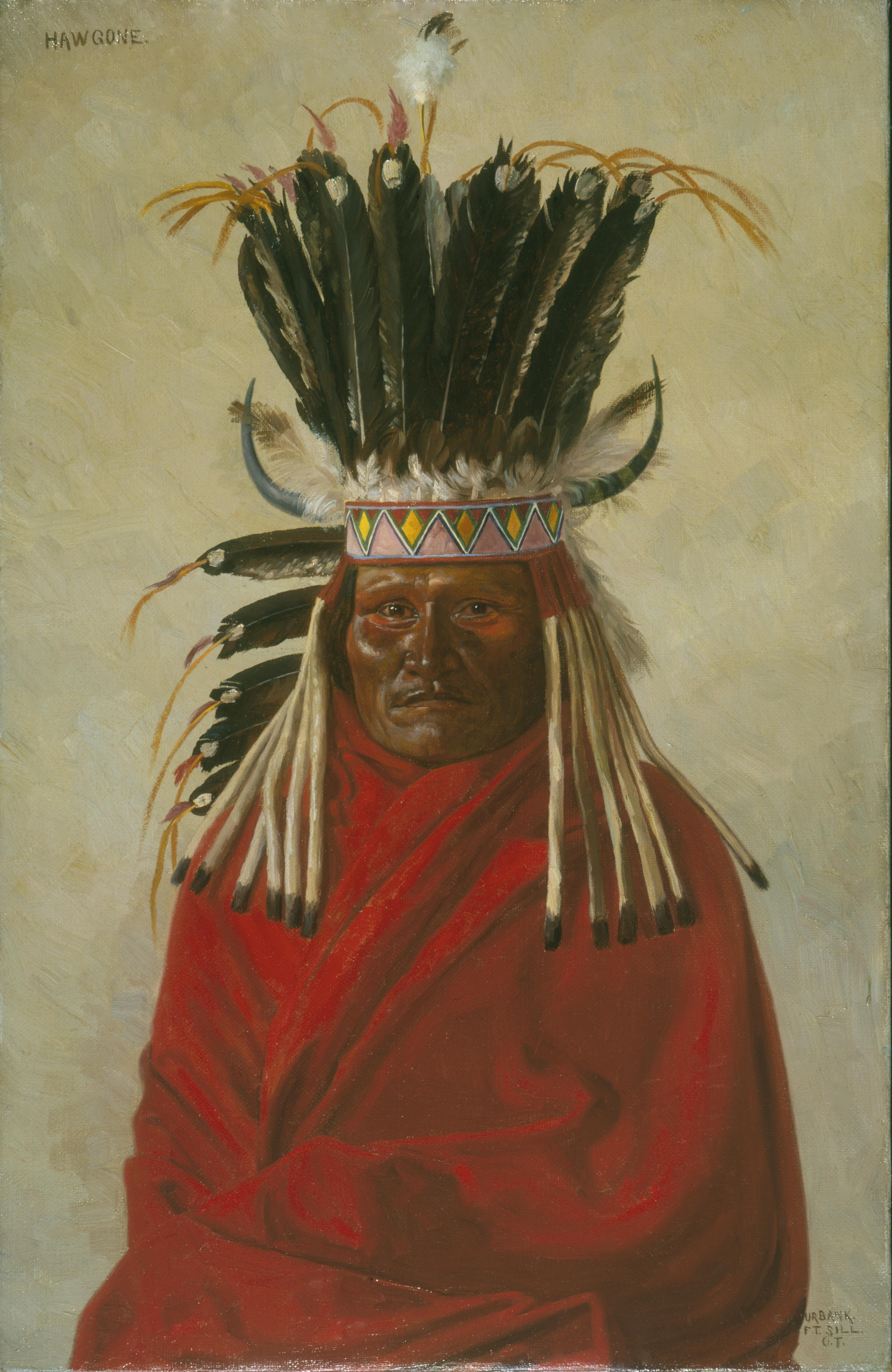 Portrait of Silver Horn (1860–1940), an important Kiowa Indian chief, warrior, and ledger artist. Silver Horn is considered one of the finest ledger artists in history and his drawings offer unaltered and accurate views of Kiowa culture and history. Painting by E.A Burbank. Burbank himself is responsible for many paintings of American Indians including famous chiefs.